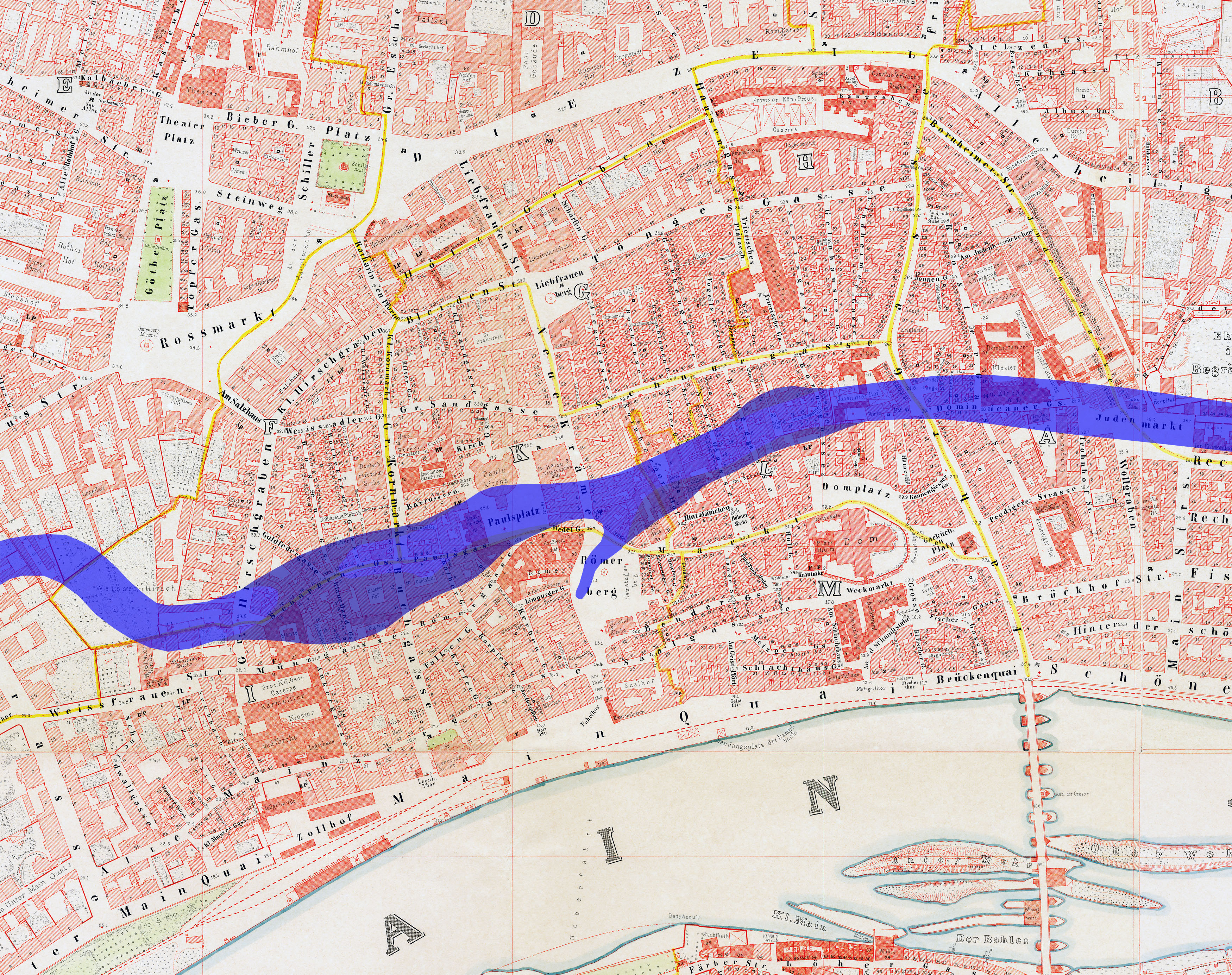 Frankfurt on the Main: composite of map sheet 5, 6, and 8, the erstwhile open (blue) respectively beneath clay (dark blue) course of the Braubach's moor is highlighted in colours